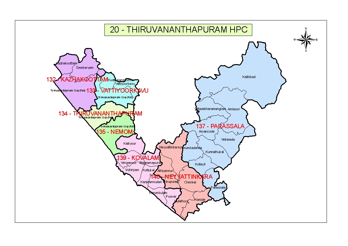 Map of the Thiruvananthapuram Lok Sabha (Parliament) Constituency